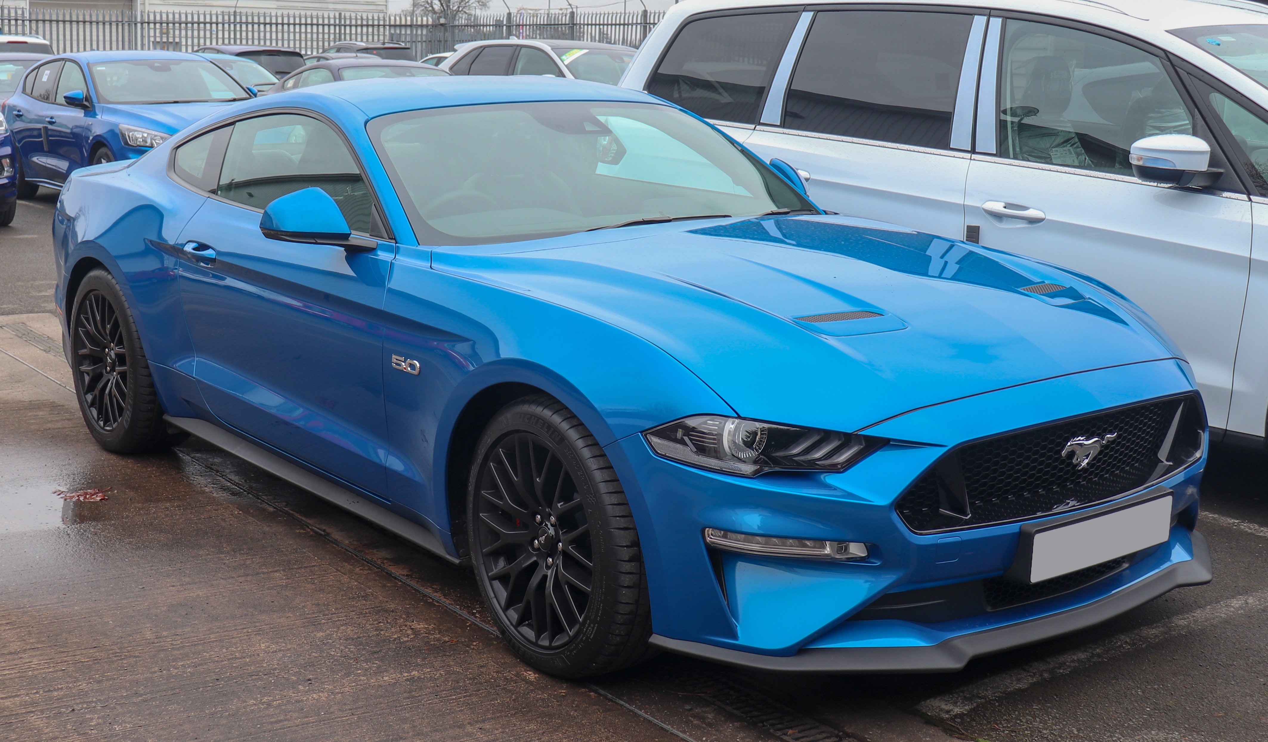 2019 Ford Mustang GT 5.0 facelift Front Taken in Leamington Spa